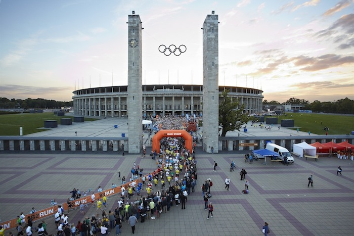 Start Finale Berlin 2012